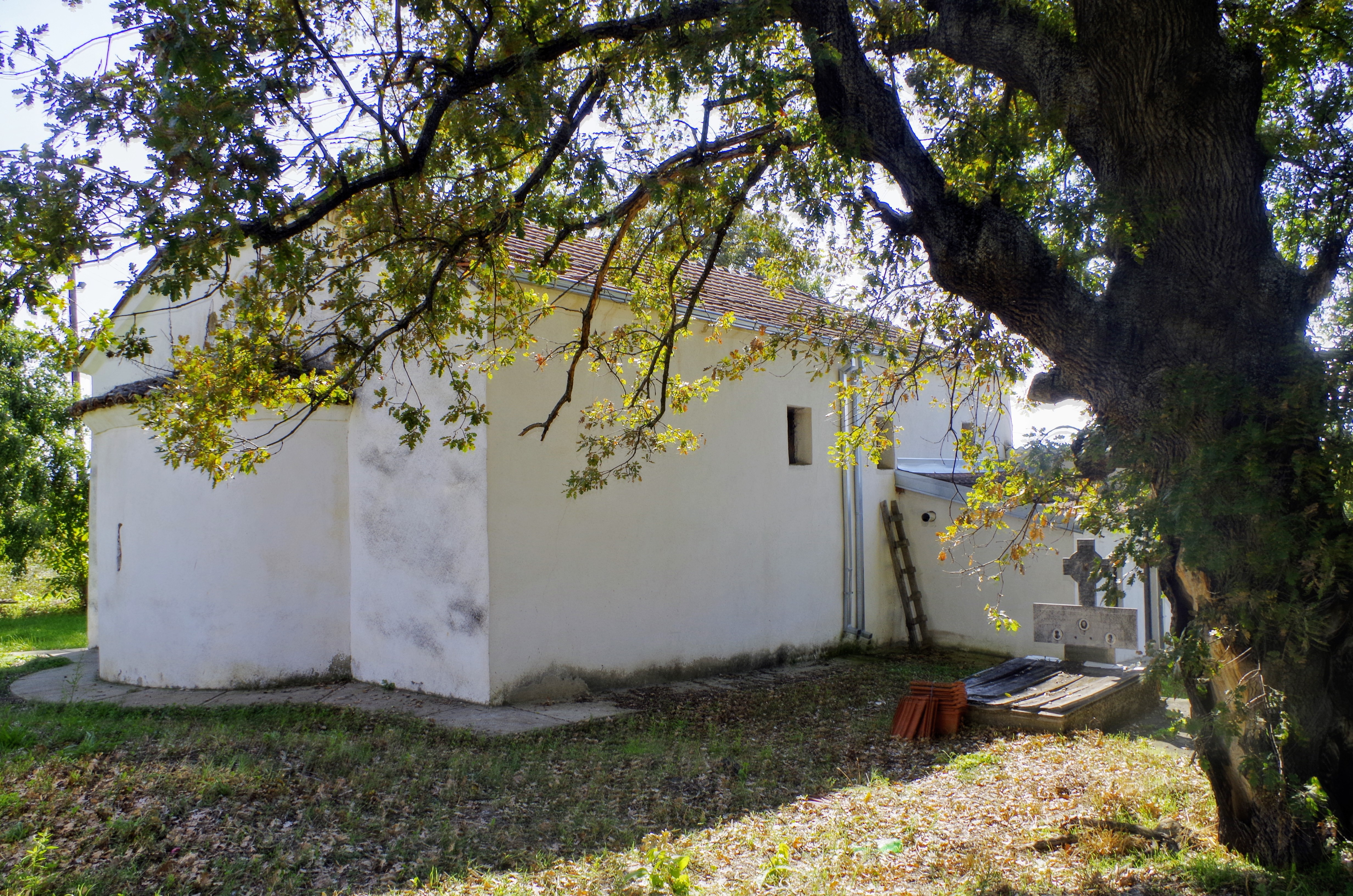 View of the St. Michael the Archangel Church in the village Dolno Dupeni